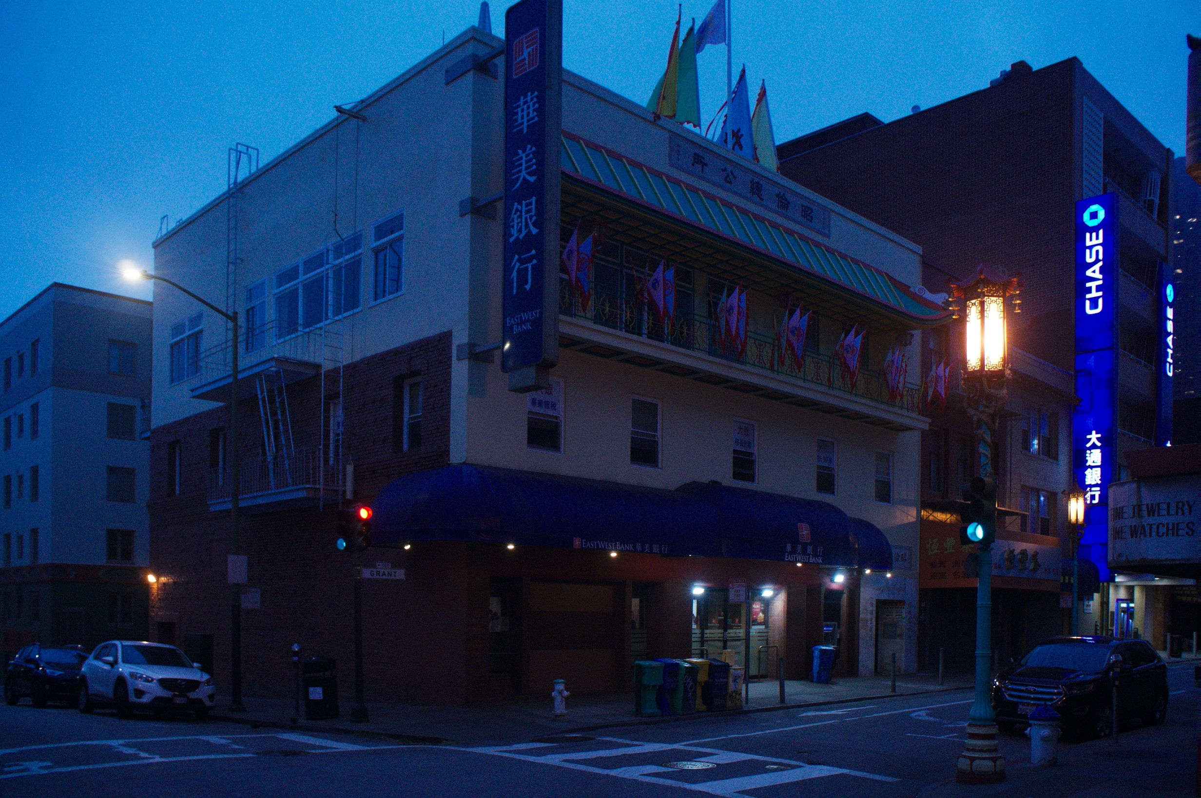 We're at Pacific and Grant ...